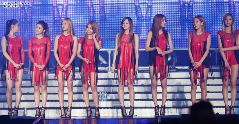 After School performing during the Guess party, July 2012.